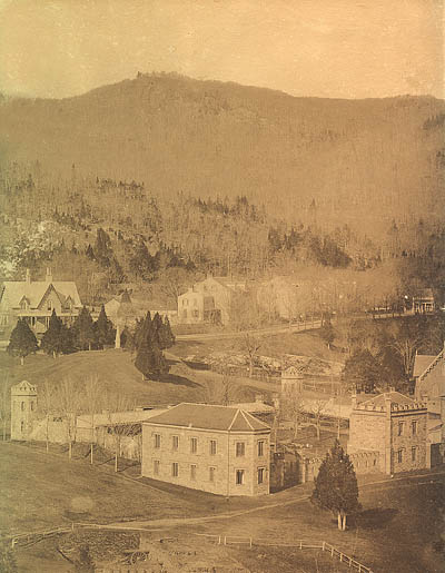 The site of the present First Class Club in Foreground, the Dean's House and Professor Row along Washington Road in the background